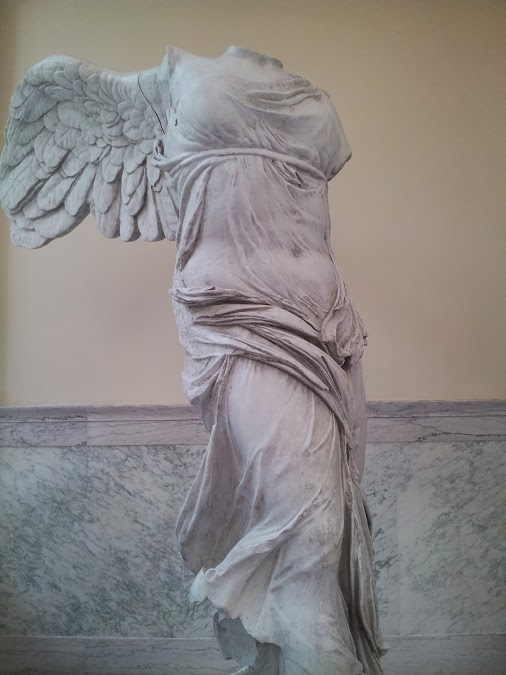 A copy of Winged Victory of Samothrace at the Idaho State Capitol.